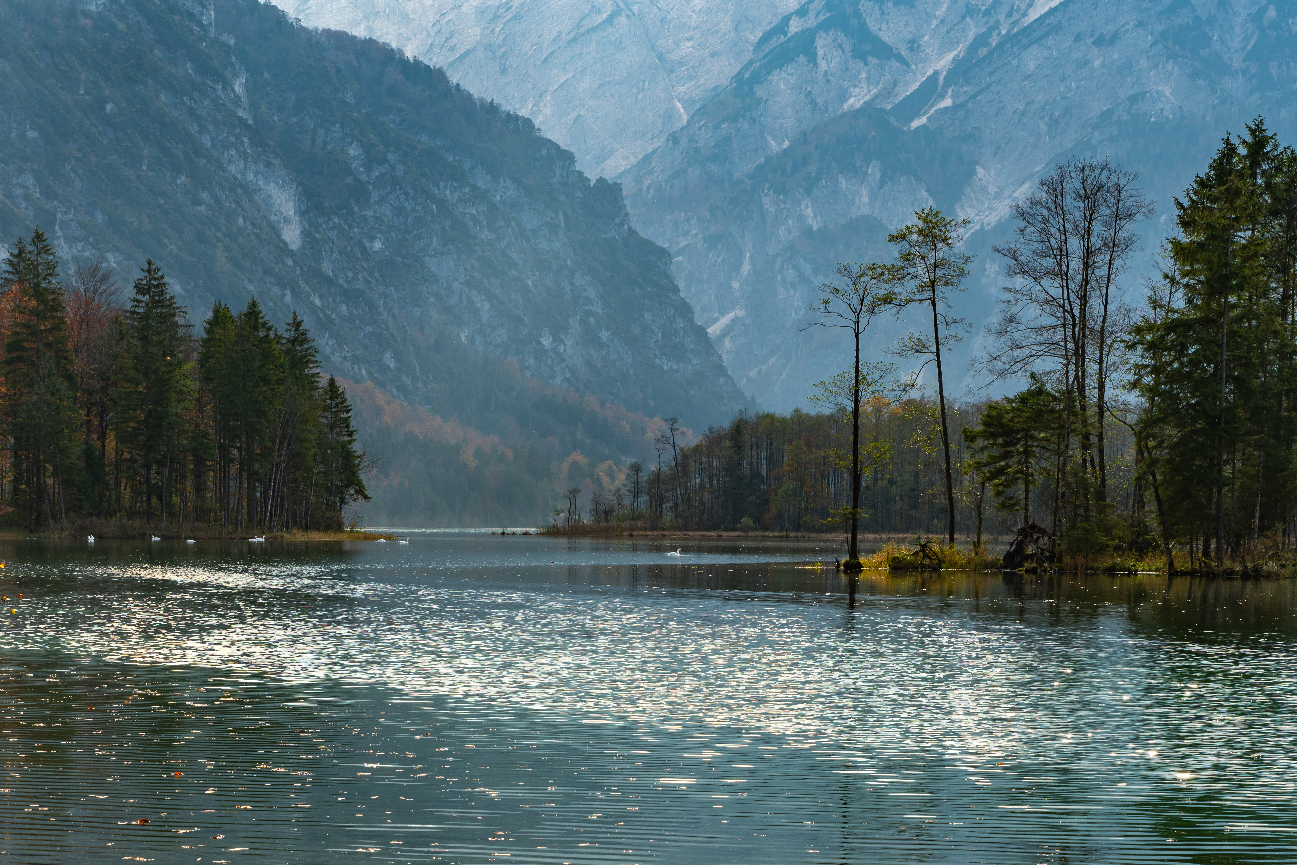 View on Almsee (Upper Austria) from north bay to the south. The lake is a protected landscape of Upper Austria.